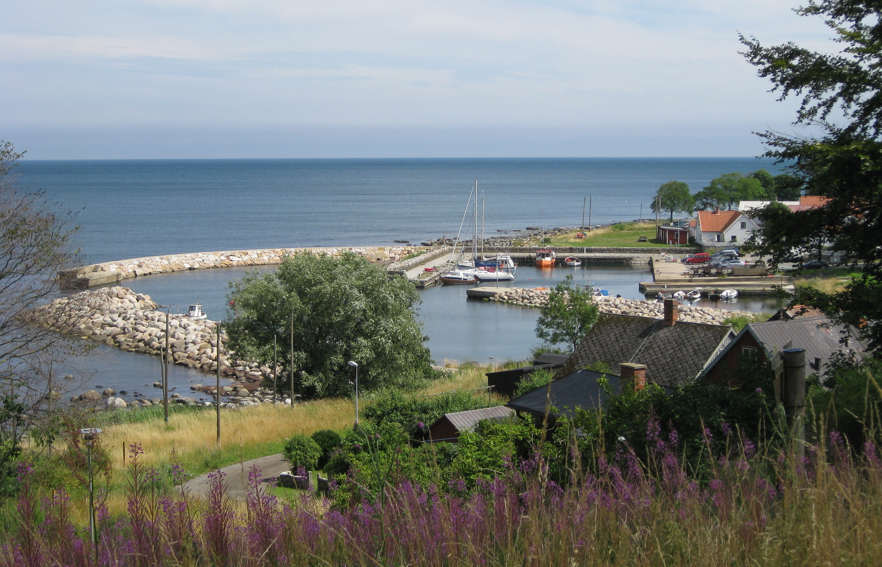 The harbour in Baskemölla in Scania, Sweden